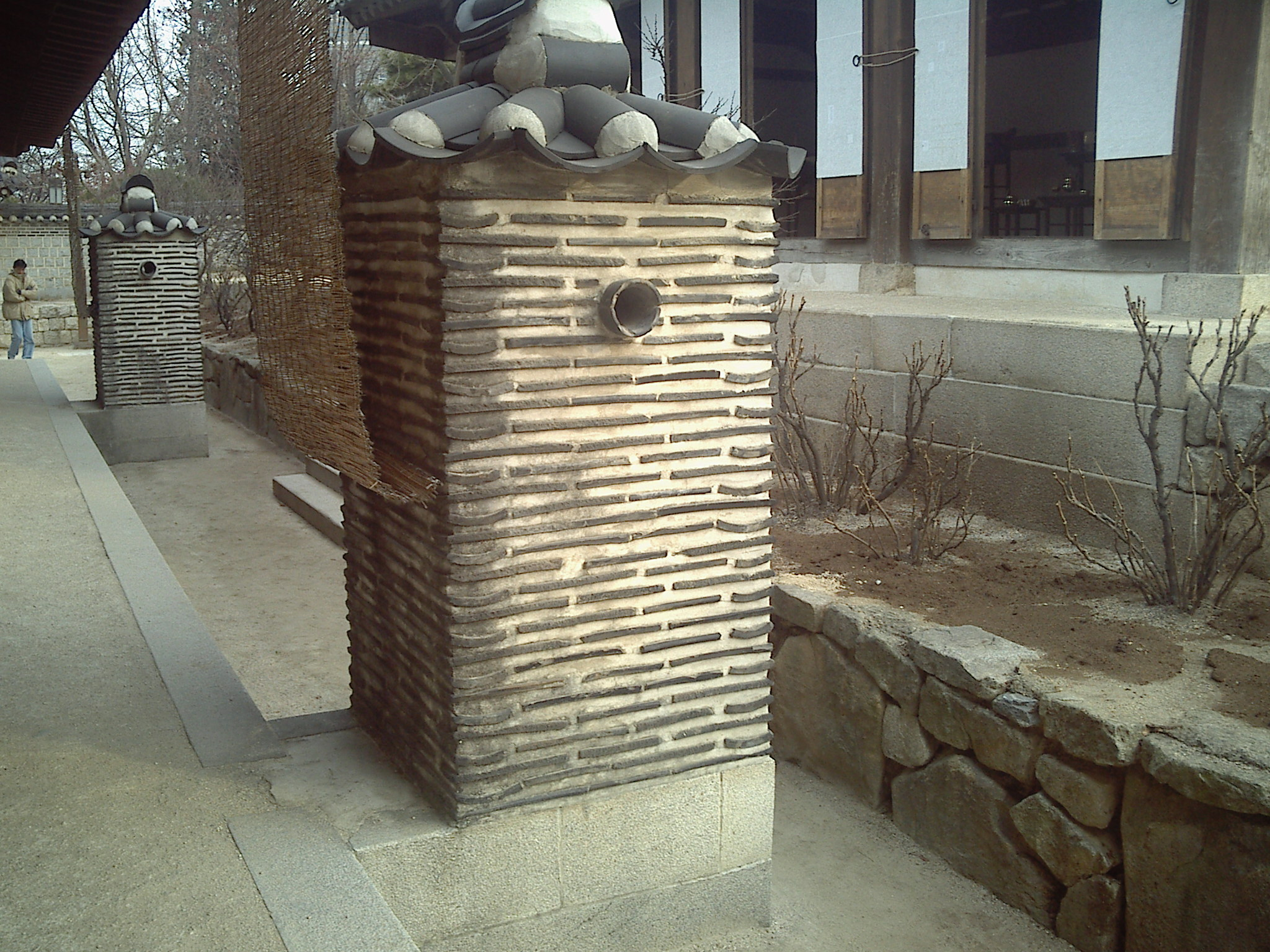 Namsangol village, Seoul, South Korea